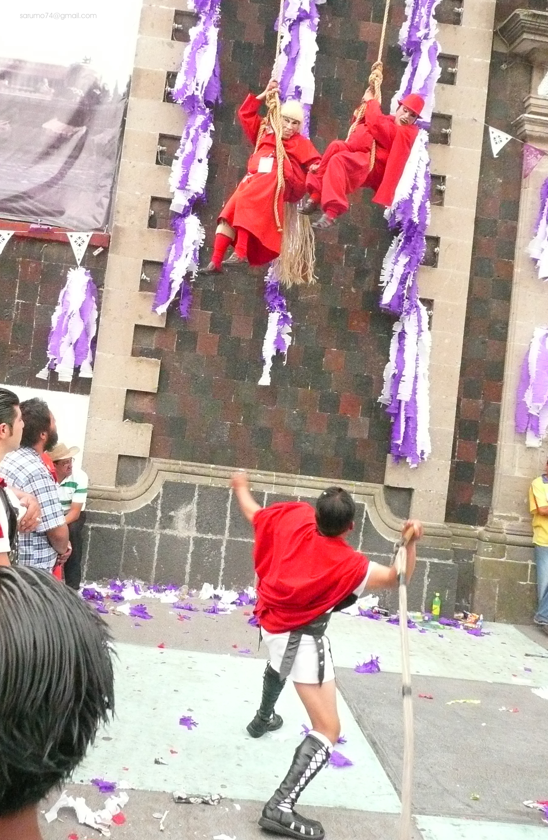 Judas hangs on Holy Saturday, hanging on the left you can see the call Judas the Traitor and the Spy right below them a soldier in a position to strike a blow with the whip.